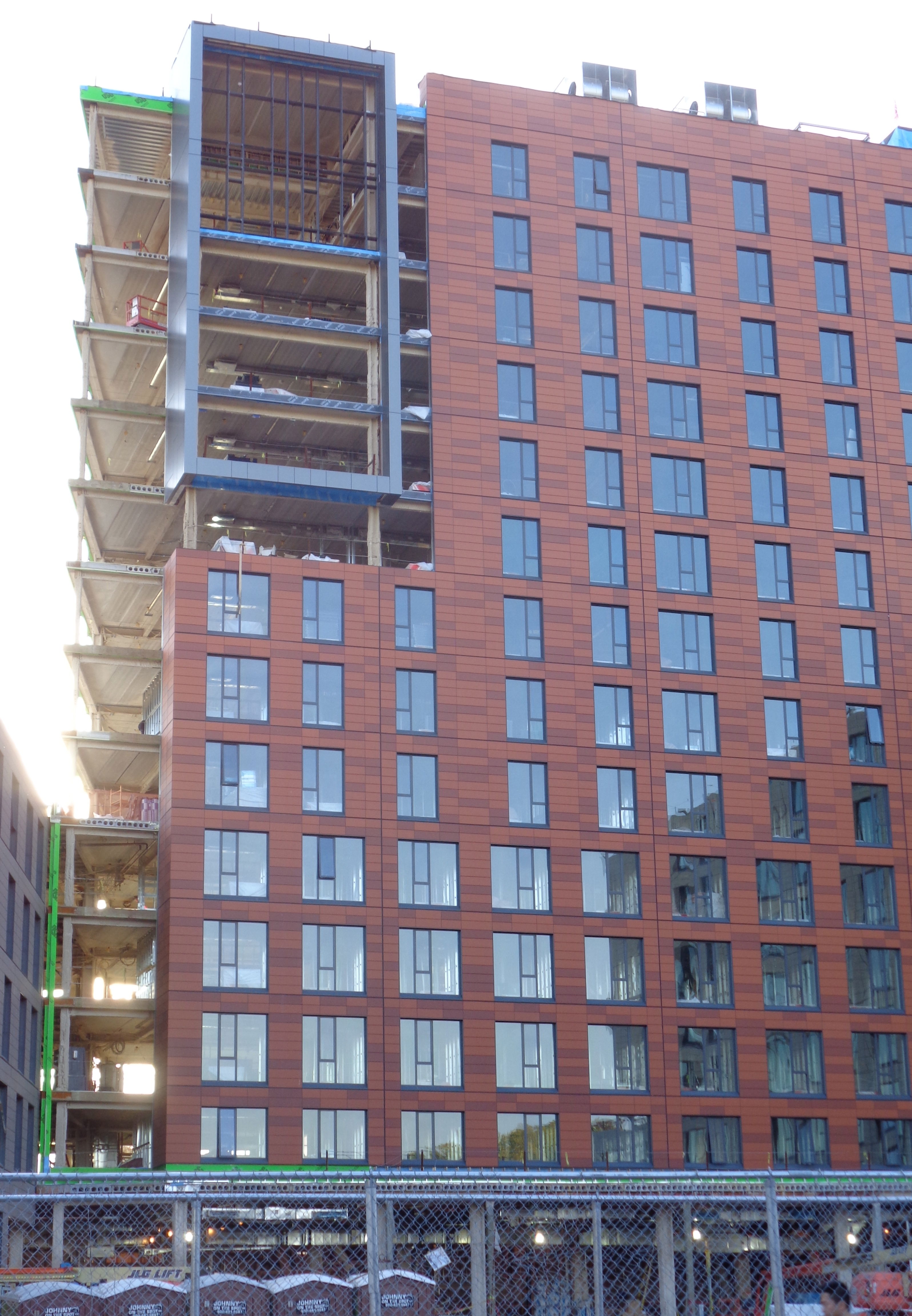 Rutgers Living Room College Avenue Campus-Rutgers Honor College Residence topped out in 2015